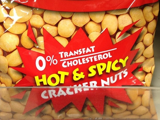 Nagarya cracker nuts